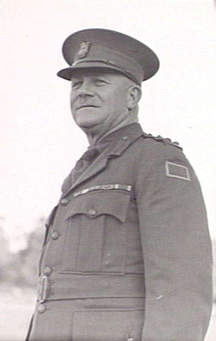 WESTERN AUSTRALIA. 1943-07-13. PORTRAIT OF VX133472 BRIGADIER G. F. LANGLEY, DSO., BRIGADE COMMANDER OF THE 2ND AUSTRALIAN INFANTRY BRIGADE.